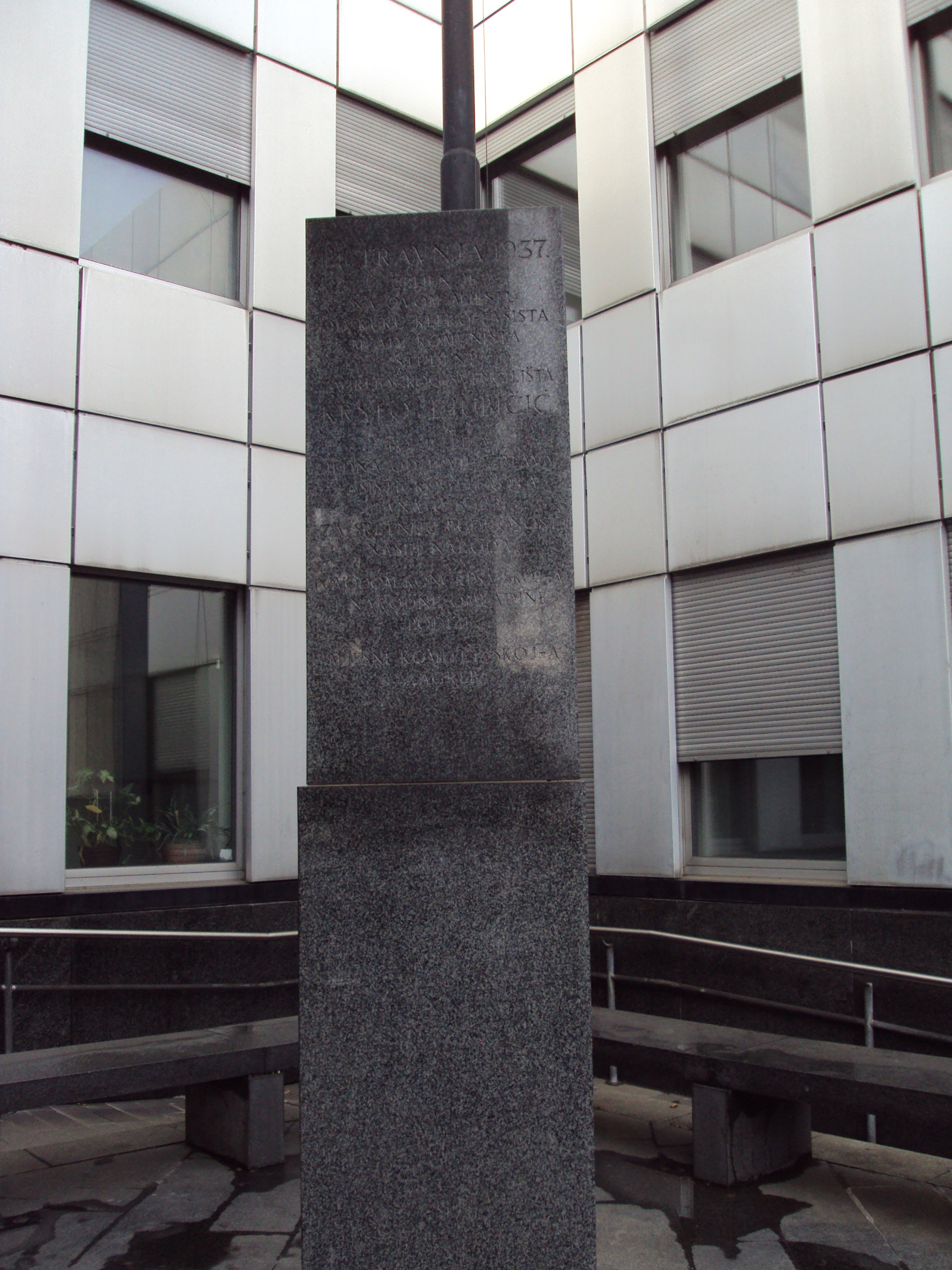 Memorial obelisk in Zagreb dedicated to the leftist student Krsto Ljubičić who was killed by Croatian radical nationalists in 1937.